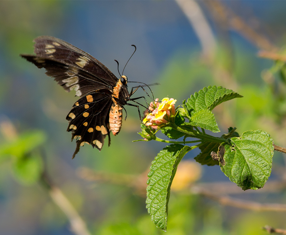 Crimson Rose (Pachliopta hector) Female from TATR